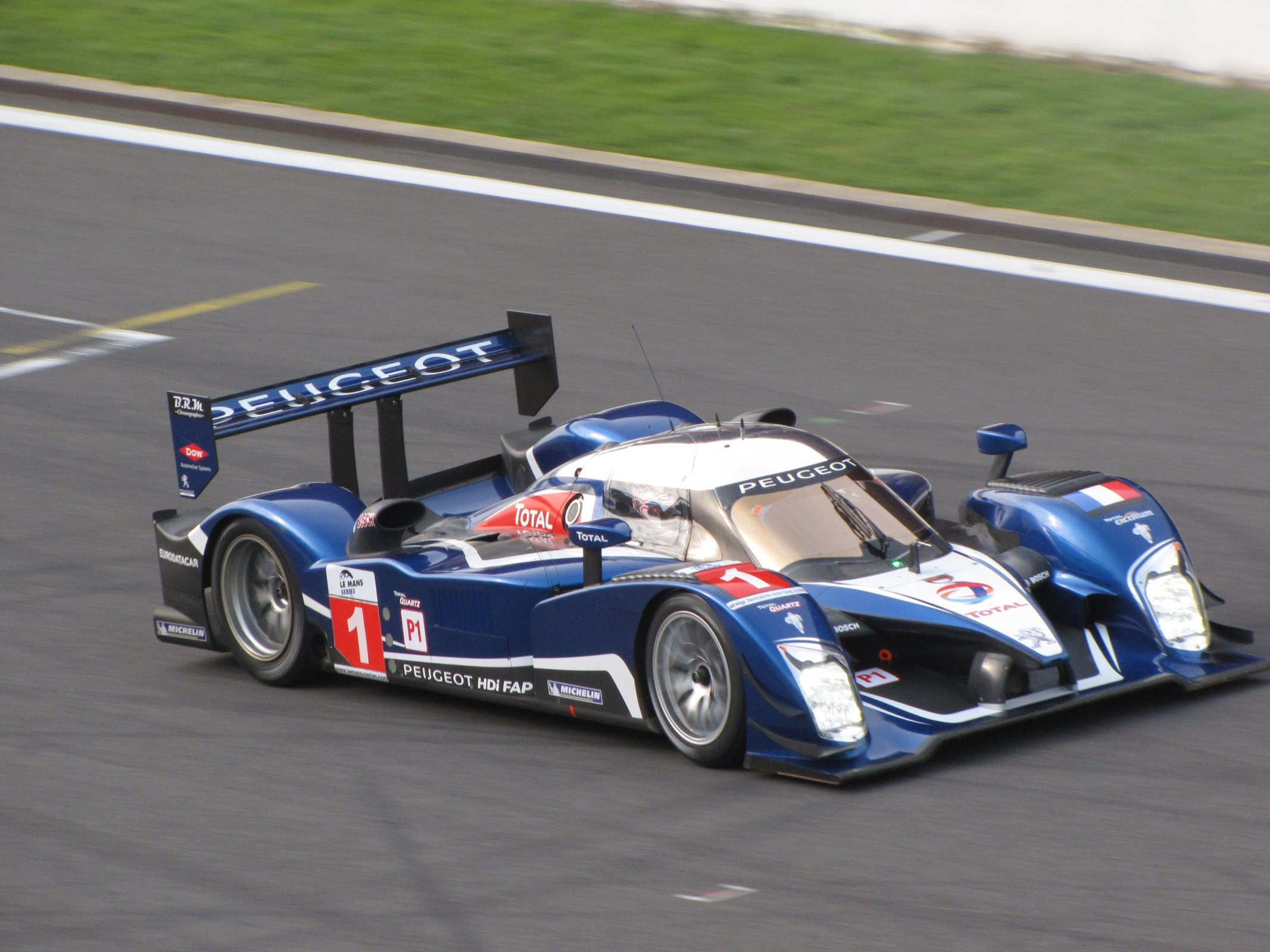 Anthony Davidson driving Peugeot 908 HDi FAP at Warm-Up of 1000 km of Spa.